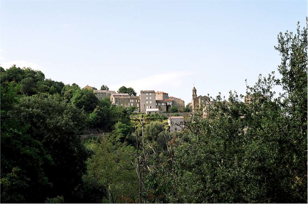 Tagliu-Isulacciu (Corsica)